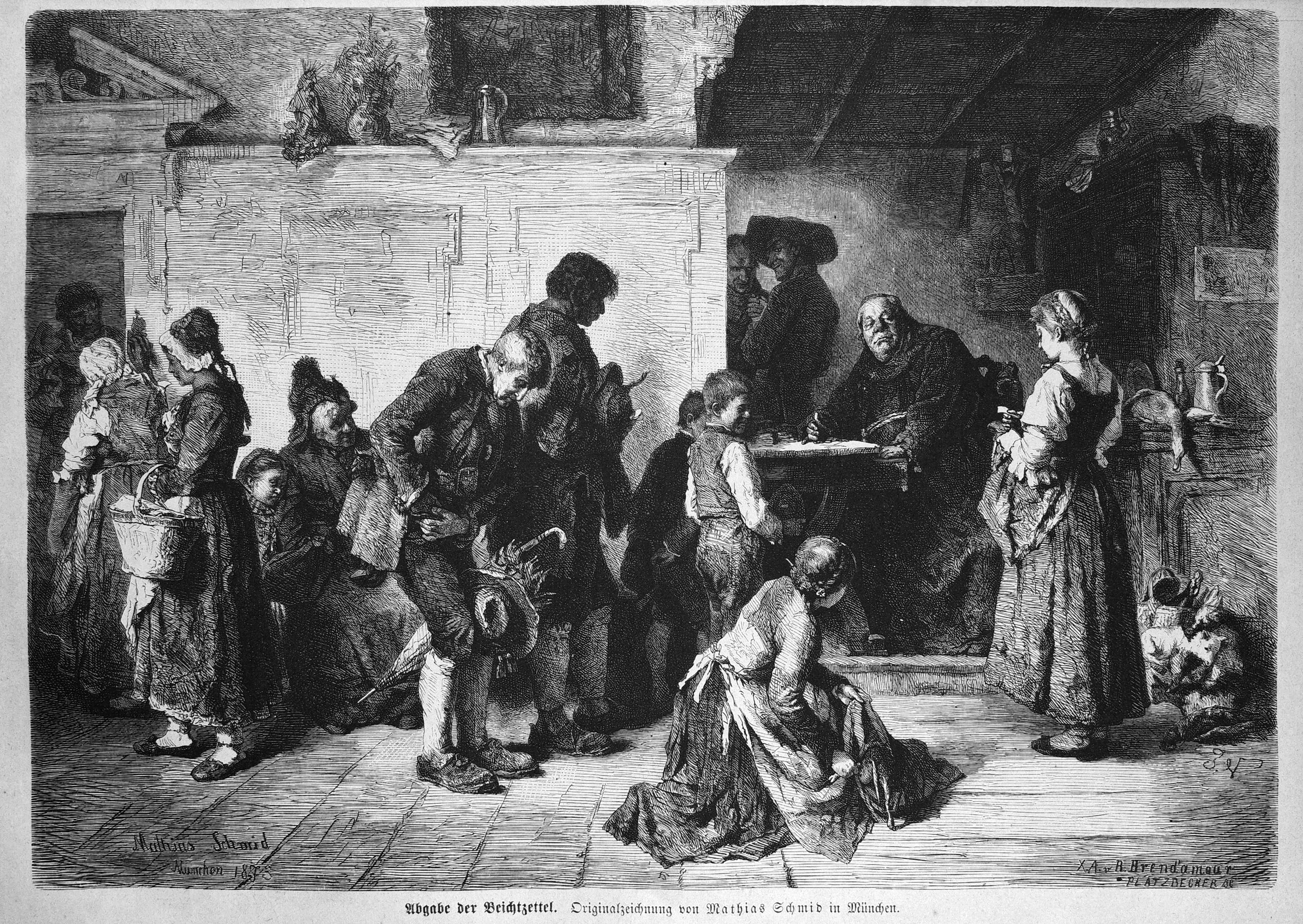 caption: "Abgabe der Beichtzettel. Originalzeichnung von Mathias Schmid in München."